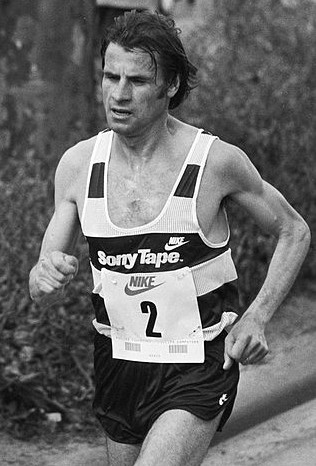 Carlos Lopes, Portuguese olympic champion